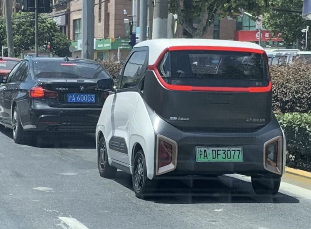 Baojun E200 rear